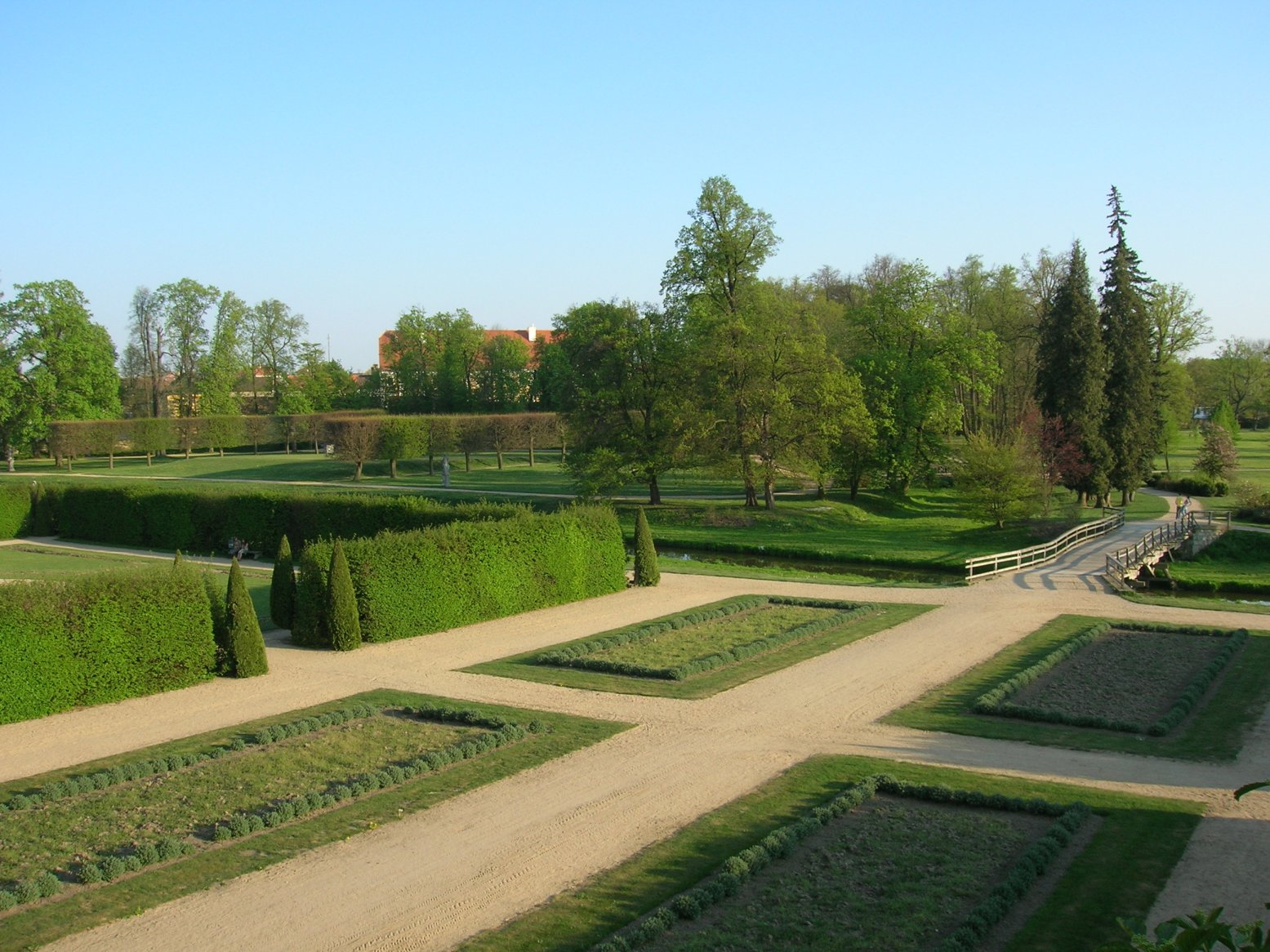 Jaroměřice nad Rokytnou. Baroque castle.